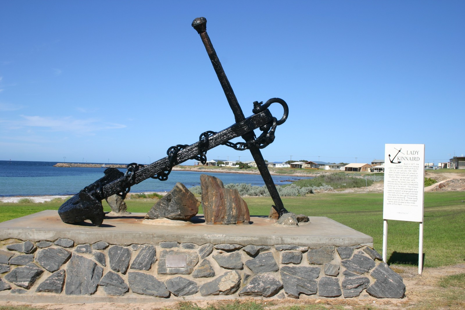 I took this photograph in March 2006 at Port Neill. Takver ( It is Released under GNU FDL.